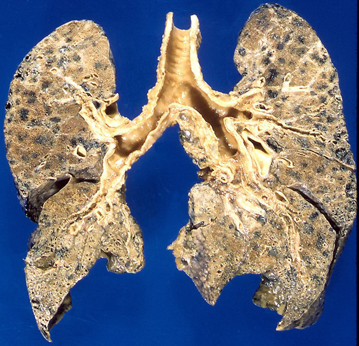 Well-demarcated, pigmented foci of emphysema are present mostly in the upper lobes; the typical location of centrilobular emphysema.